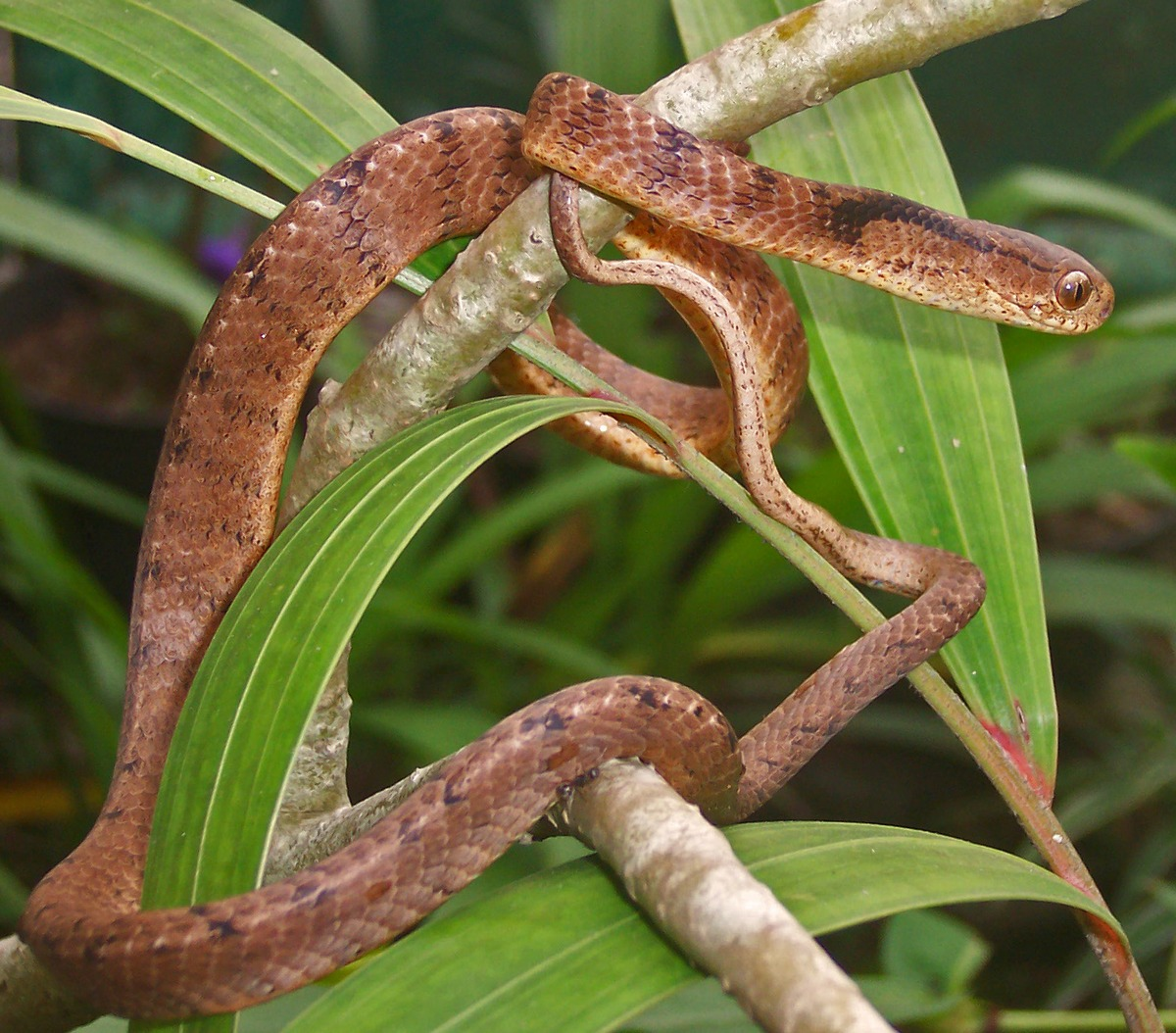 Pareas carinatus, from Bogor, West Java, Indonesia